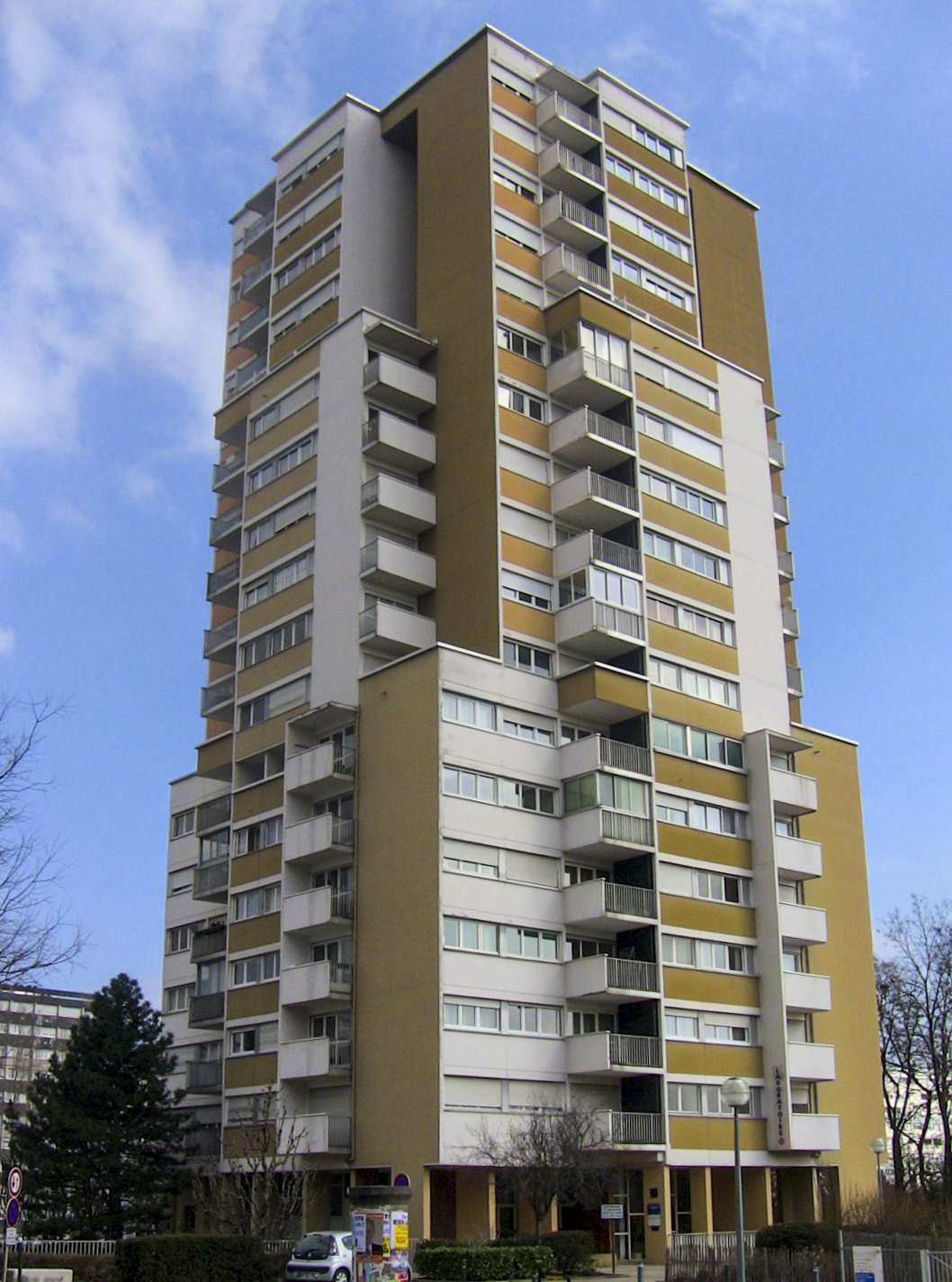 The tower of Planoise, located in Besançon (Doubs, France).